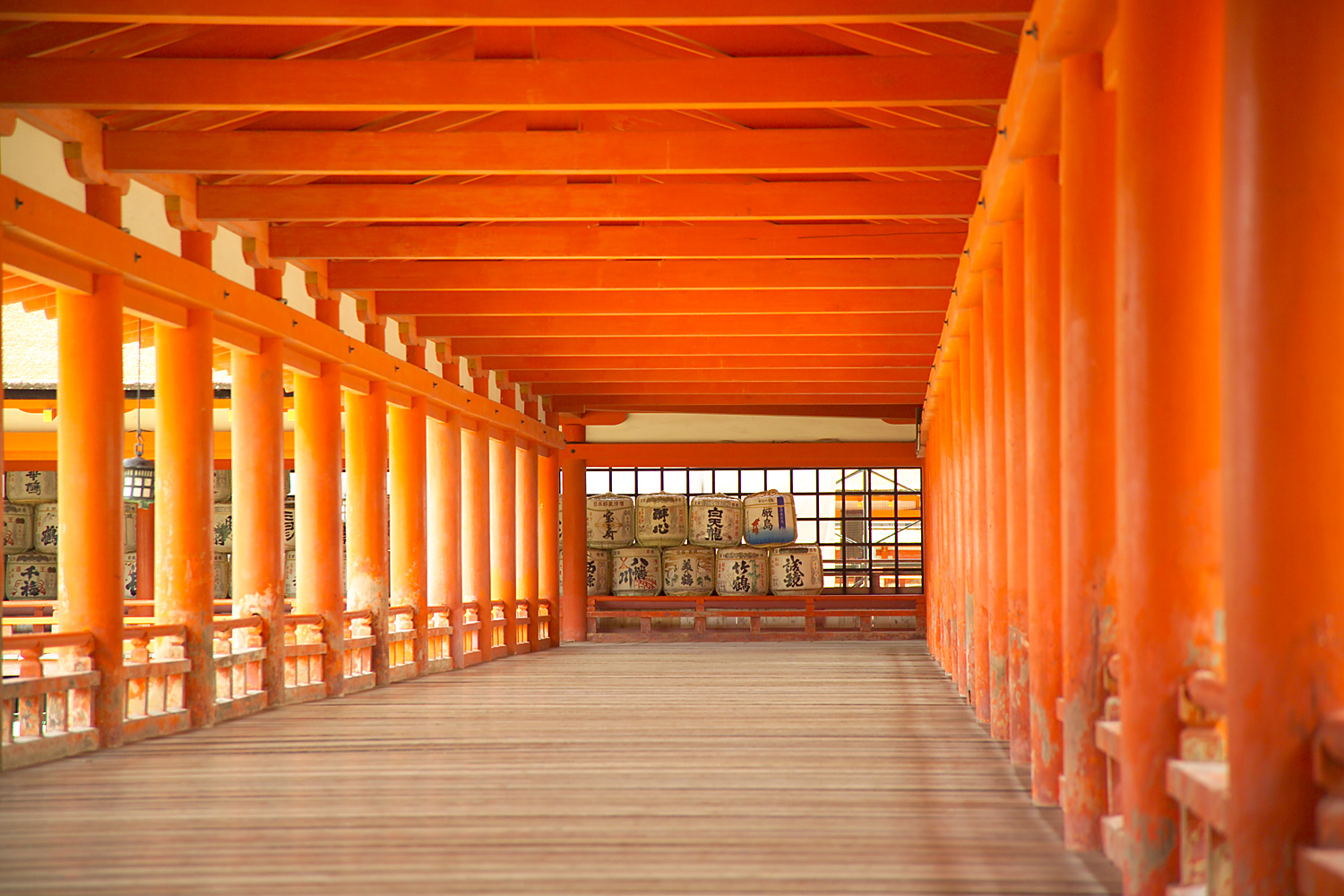 Corridor in building at Itsukushima Shrine, Miyajima, Hiroshima Prefecture, Japan. I took this photo and contribute my rights in the file to the public domain; people and organizations retain rights to images in it.